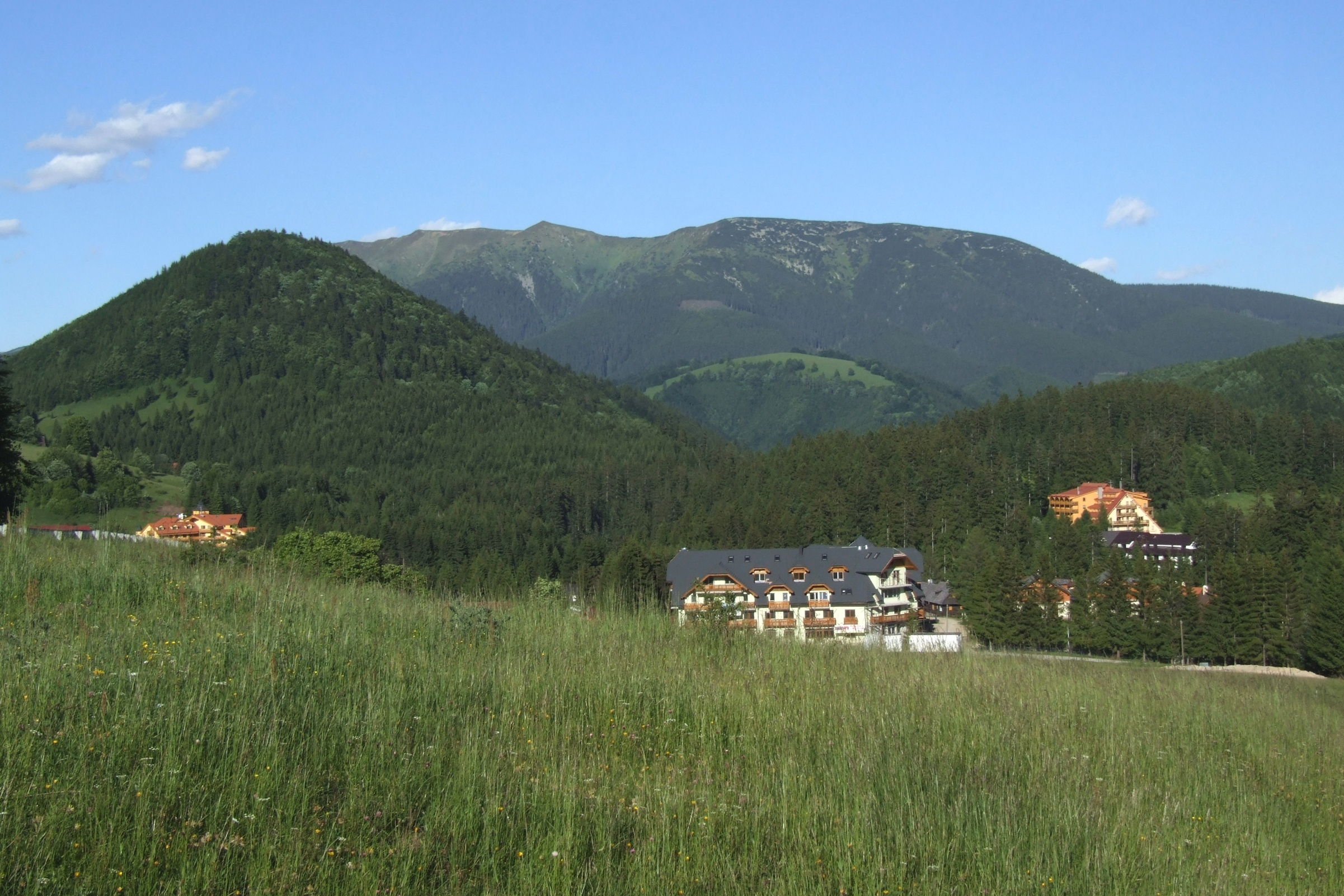 Low Tatras in Juni - view from Donovaly